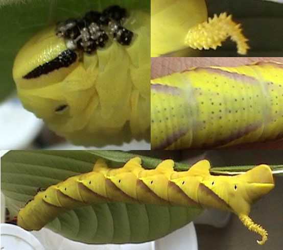 Death's Head Hawkmoth(Acherontia styx) caterpillar(collage)